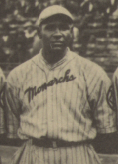 Oscar "Heavy" Johnson at the 1924 Colored World Series. LOC states here that there are no restrictions on use of this image, therefore it is PD. This file has been extracted from another file: 1924 Negro League World Series.jpg